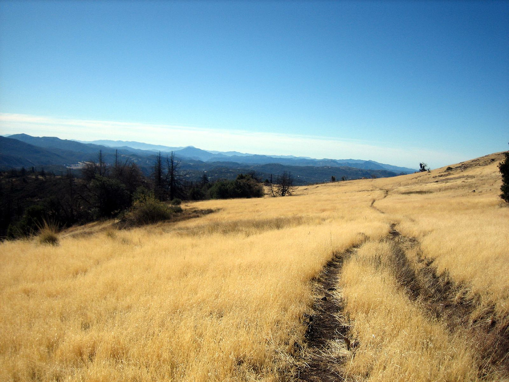 Cuyamaca Rancho State Park - West Mesa Trail, through grasslands. Located in the Cuyamaca Mountains, of San Diego County, California.